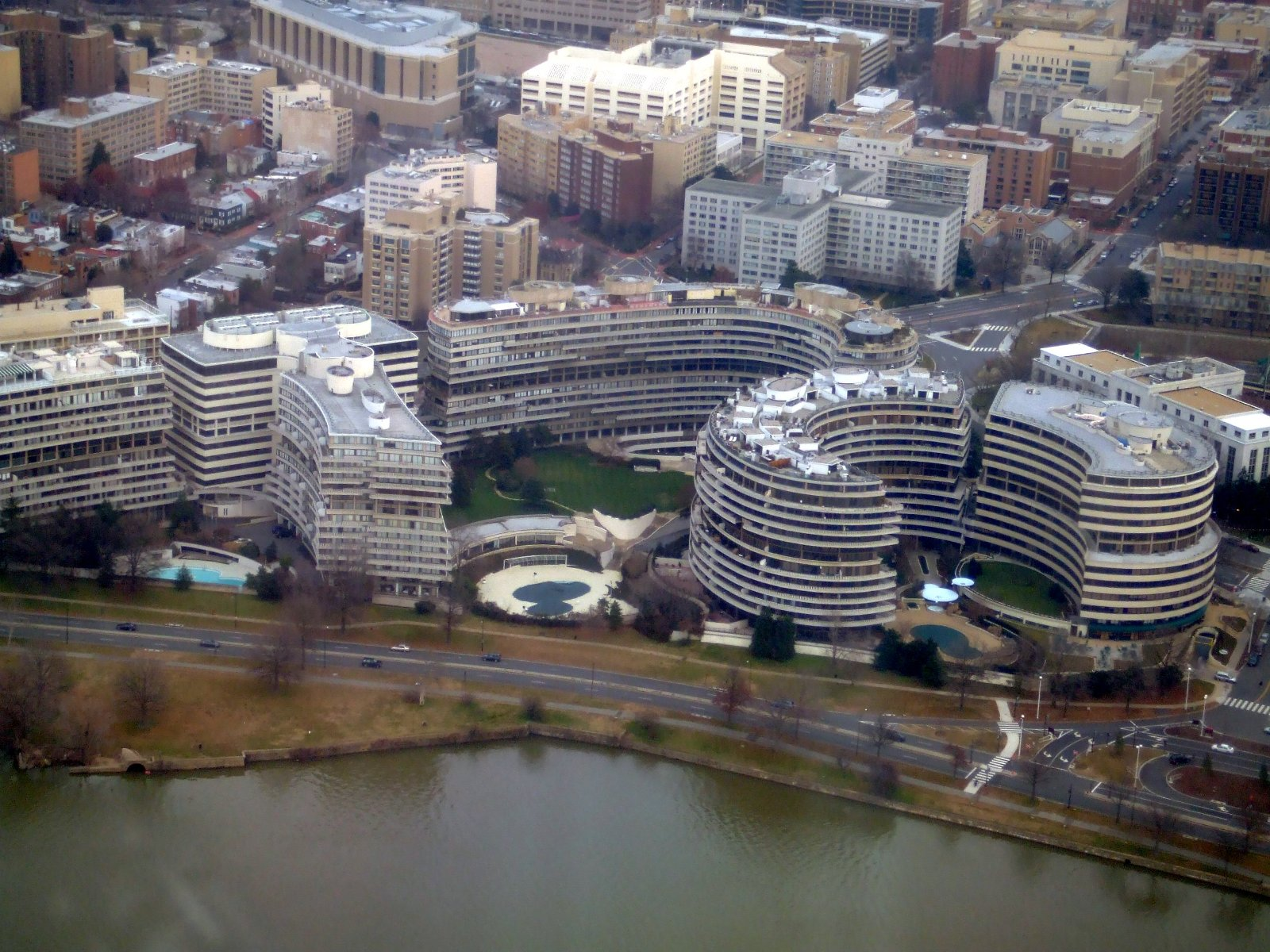 A photo of the Watergate Complex taken from a DC-9-80 inbound to Washington National Airport on January 8, 2006.